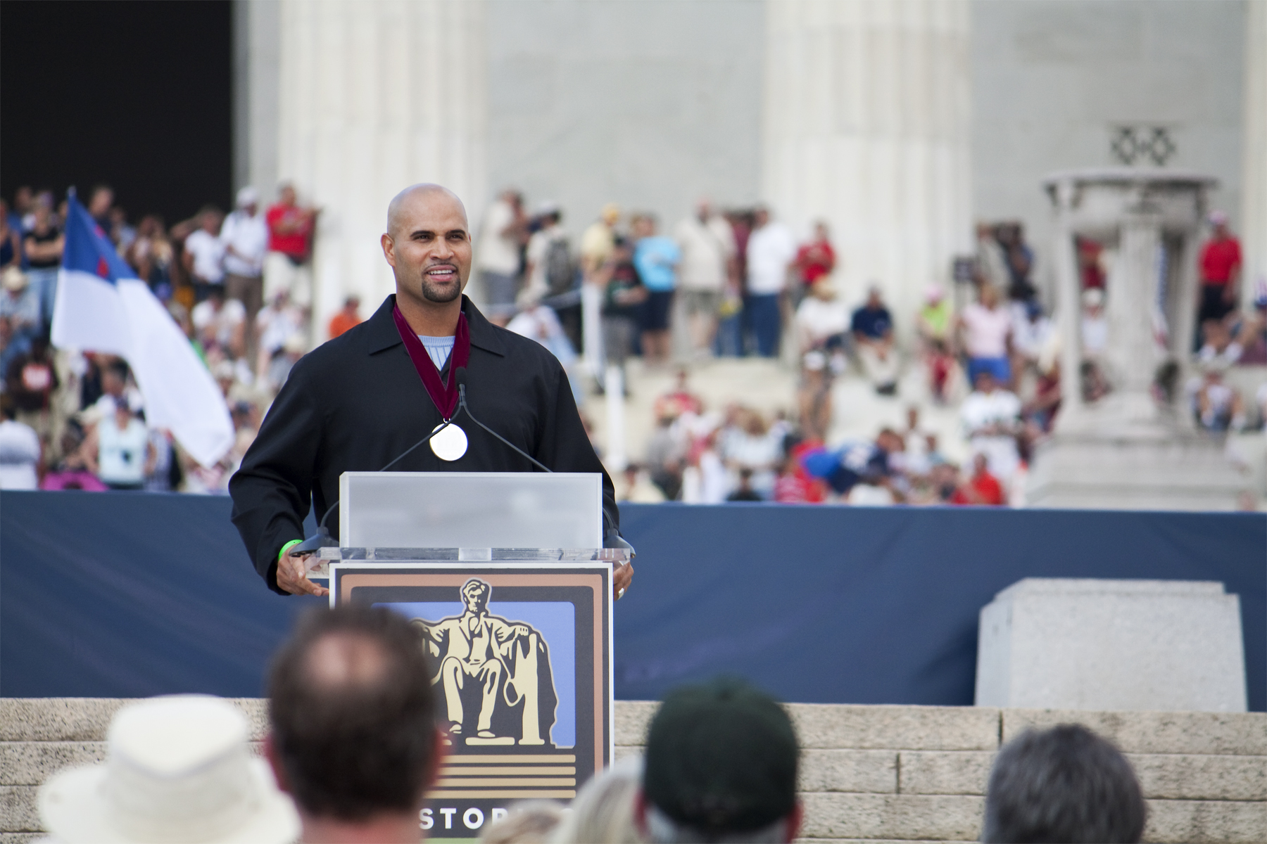 Restoring Honor rally Washington, D.C.